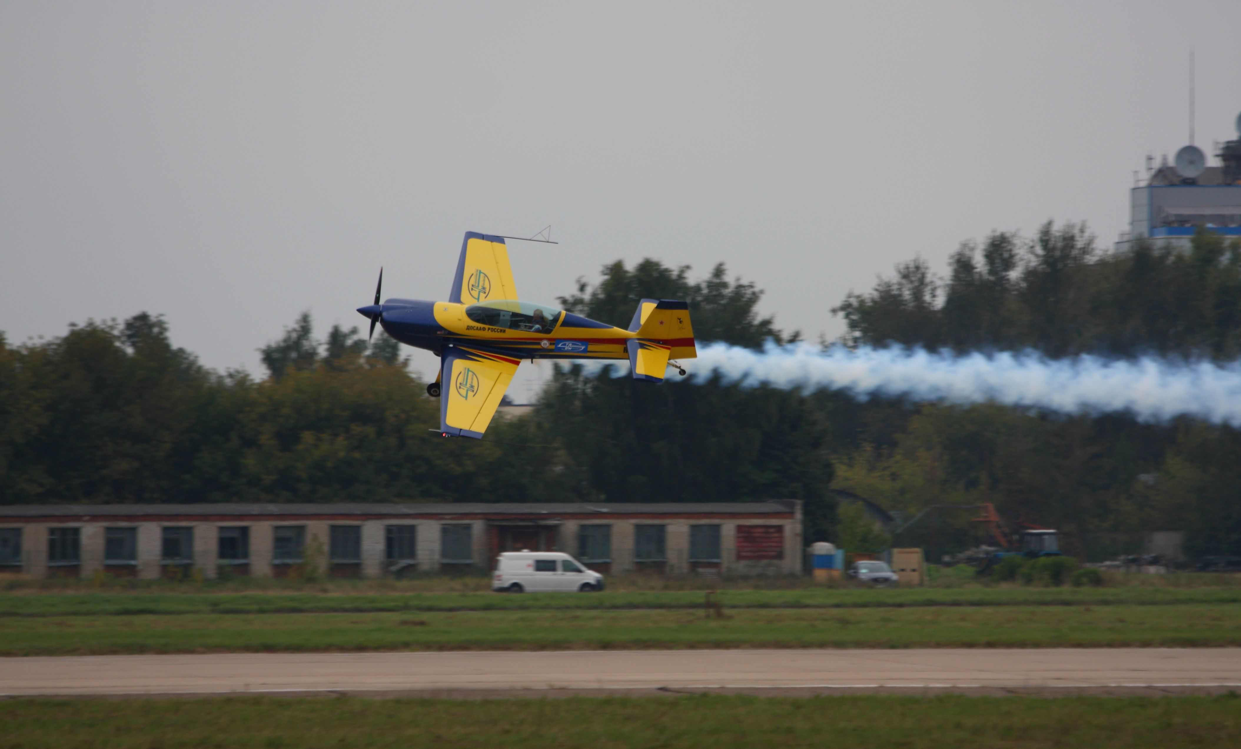 Svetlana Kapanina on Extra-300 (The international aerospace salon MAKS-2013)